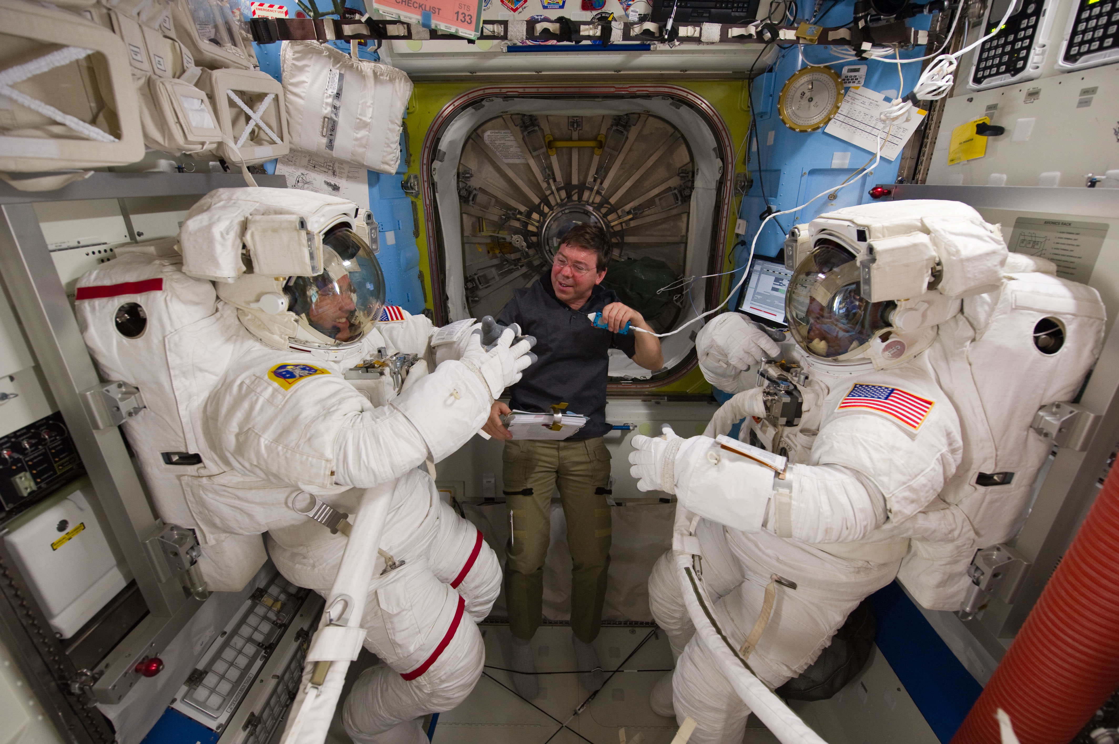 Barratt (center) and Alvin Drew, all STS-133 mission specialists, are pictured in the Quest airlock of the International Space Station as they prepare for the start of the mission's first spacewalk. Bowen and Drew are wearing Extravehicular Mobility Unit (EMU) spacesuits.